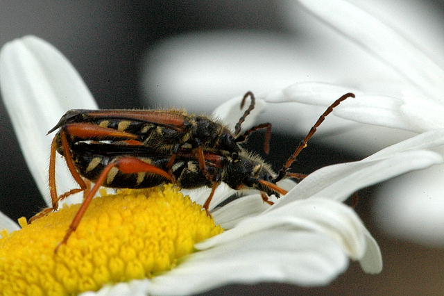 Picture taken in Commanster, Belgian High Ardennes . Species: Stenopterus rufus couple